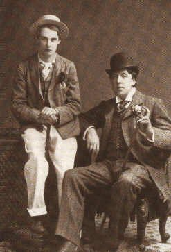 Oscar Wilde and his male lover, Lord Alfred Douglas, before the trial, in 1894.